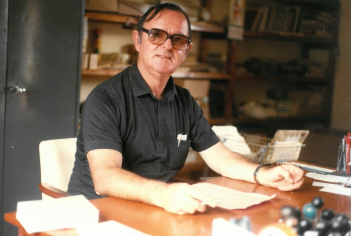 Fr. Paschal Slevin OFM, Irish Franciscan missionary priest at his desk in Mount St. Mary's Mission, Hwedza, Zimbabwe - December, 1985.